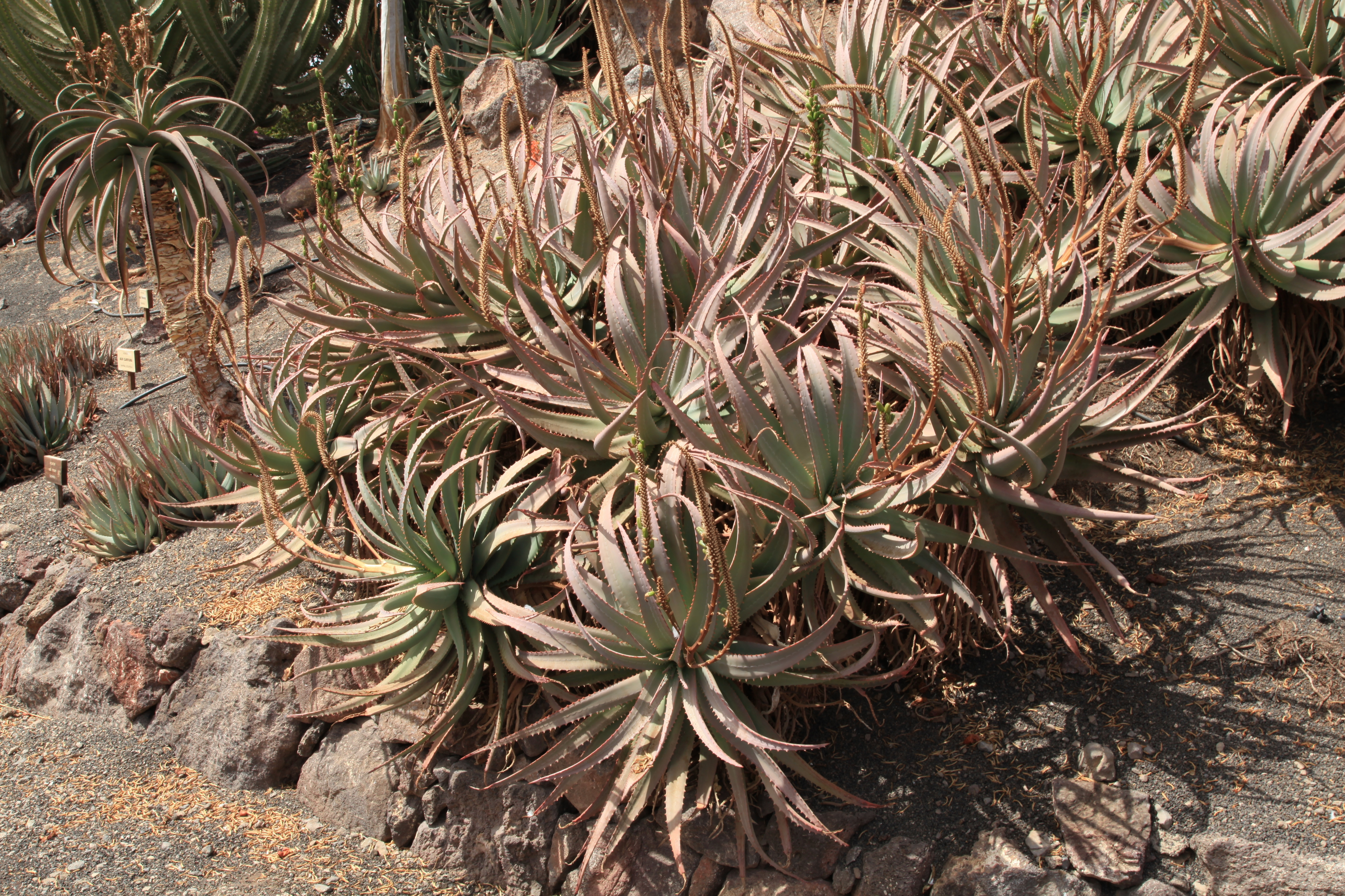 Aloe littoralis in the Oasis Park in La Lajita, Pájara, Fuerteventura, Canary Islands